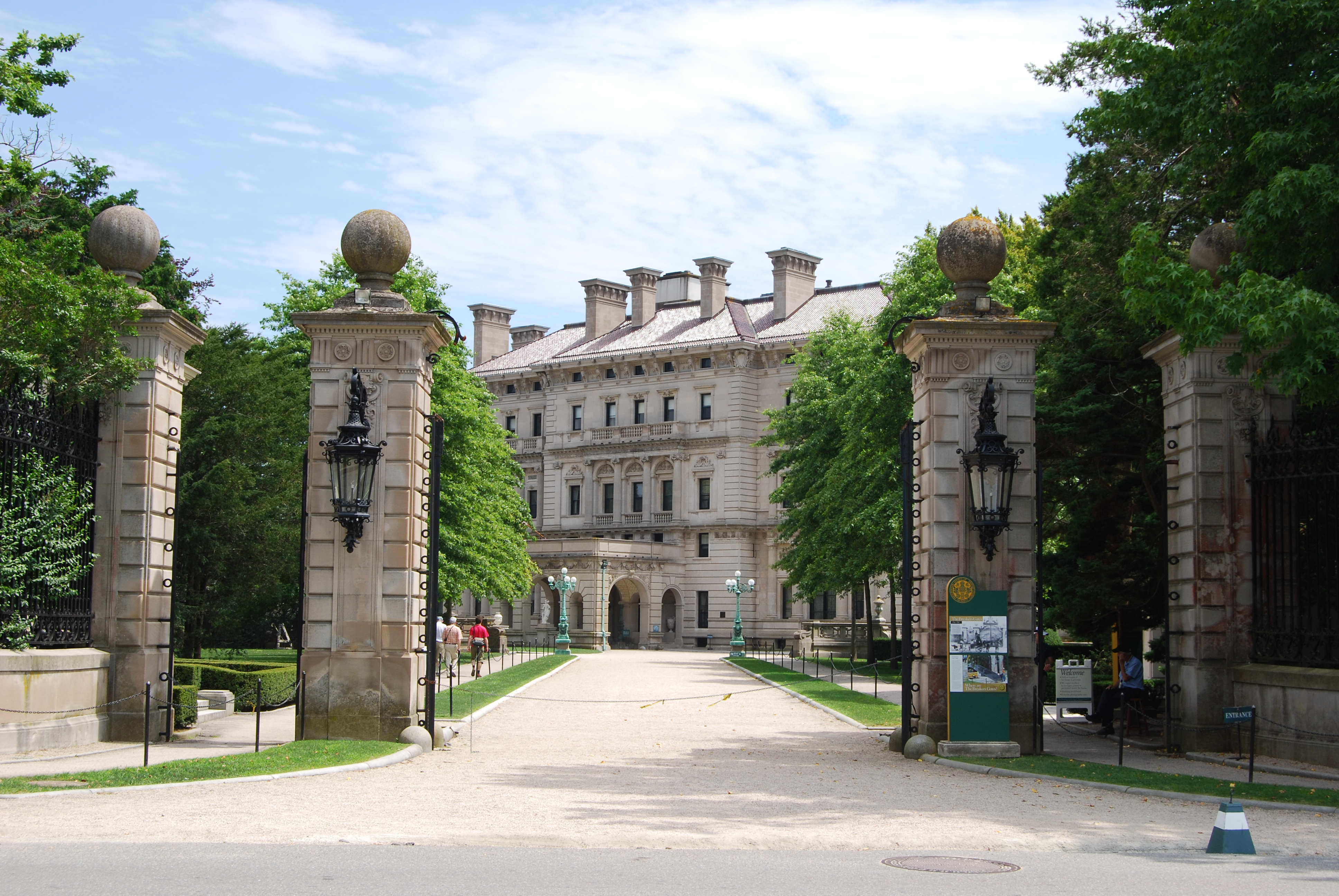 Gated entrance to The Breakers — in Newport, Rhode Island, United States.